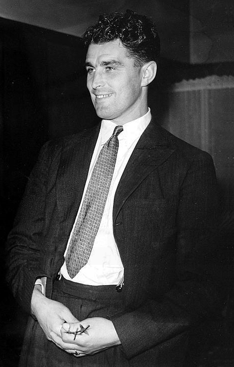 Sport, Football/Cricket, London, England, 19th September 1947, Leslie Compton playing darts for a charity at a London Hotel